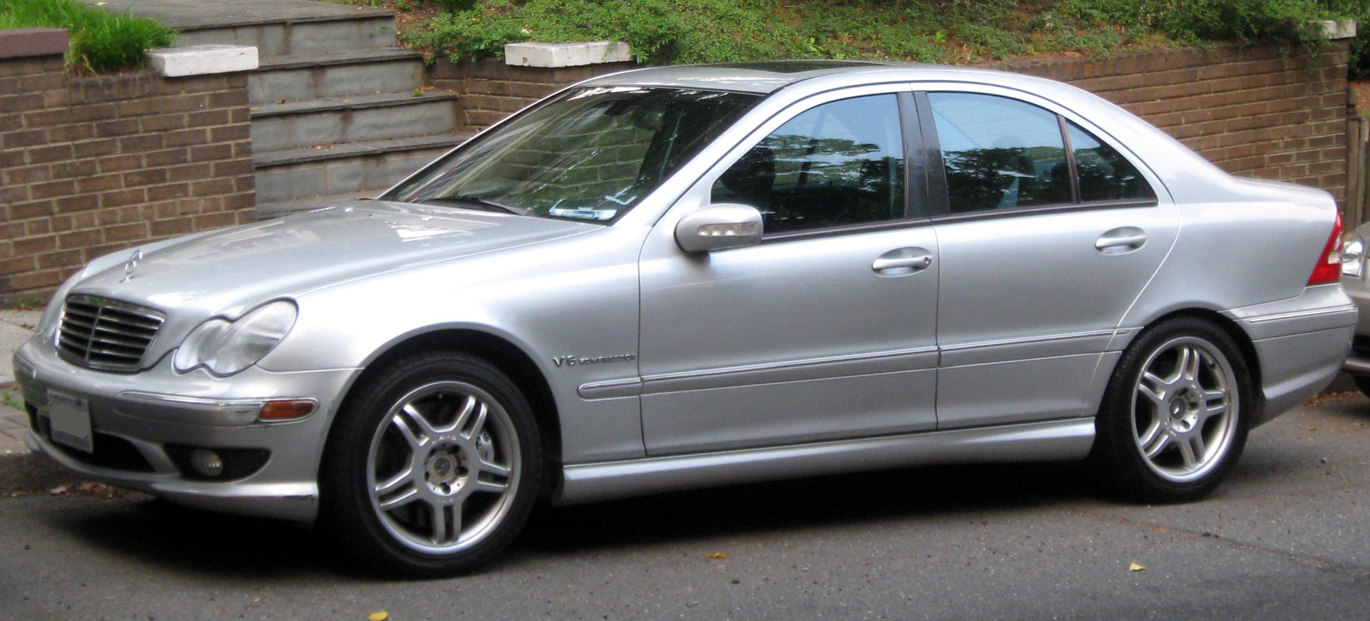 Mercedes-Benz C32 photographed in Washington, D.C., USA.